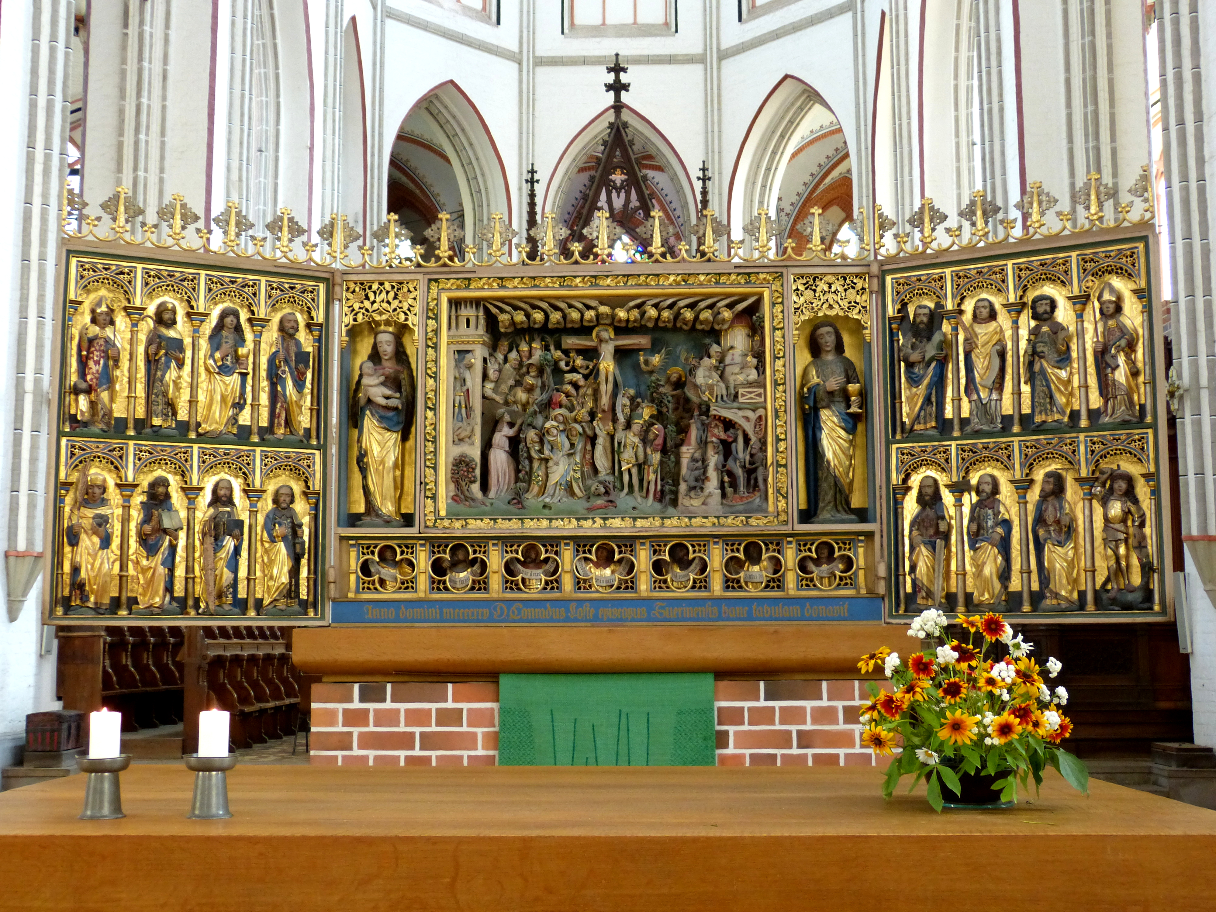 Schwerin Cathedral ( Mecklenburg ). Gothic polyptich ( 15th century )